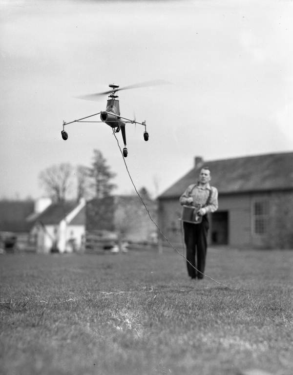 Local call number: JJS0472 Title: Model helicopter being controlled by its creator Arthur M. Young: Paoli, Pennsylvania Date: April 16, 1941 Physical descrip: 1 photonegative - b&w - 5 x 4 in. Series Title: Joseph Janney Steinmetz Collection Repository: State Library and Archives of Florida, 500 S. Bronough St., Tallahassee, FL 32399-0250 USA. Contact: 850.245.6700. Persistent URL